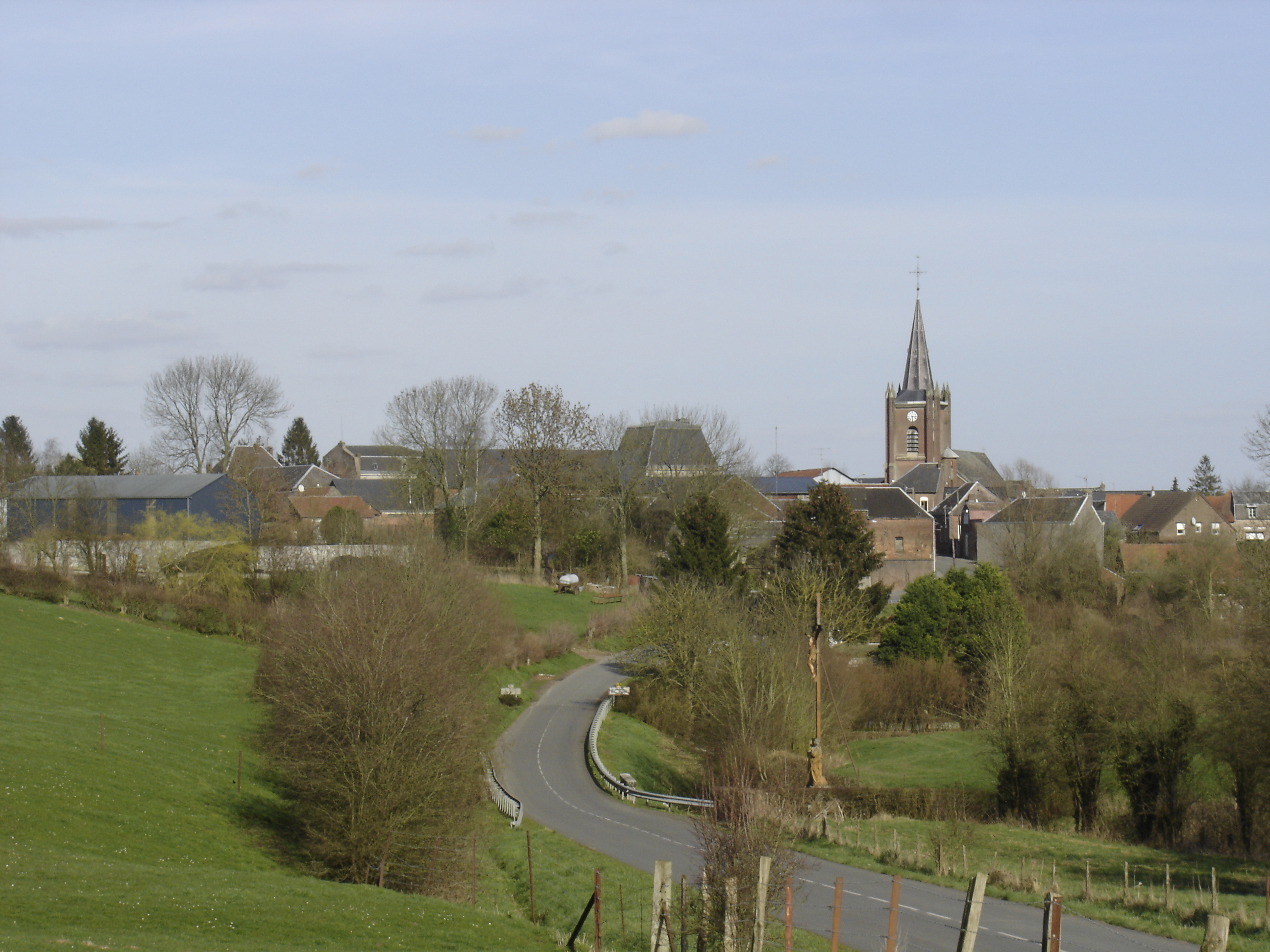 Saint-Souplet Overall view of the village